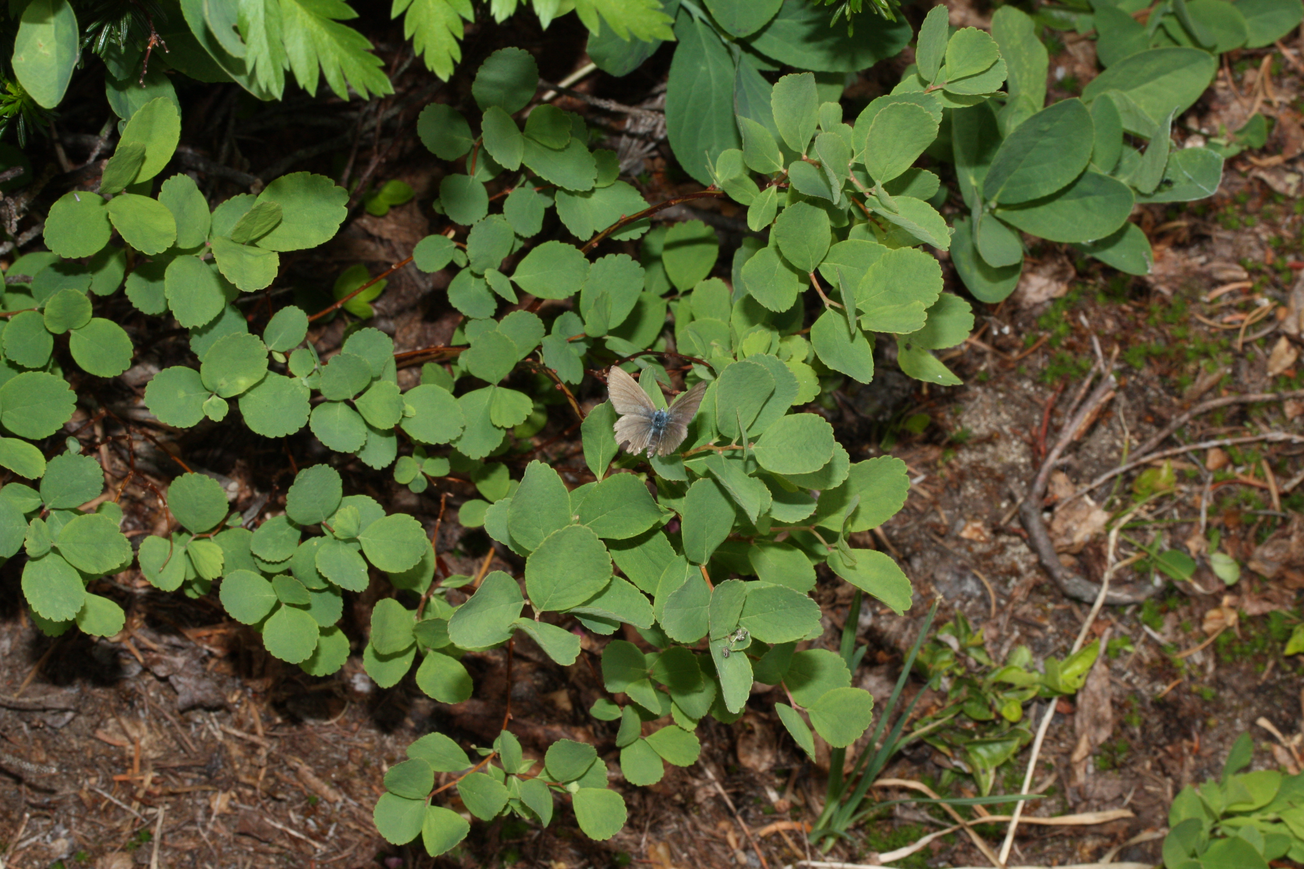 Silvery Blue female